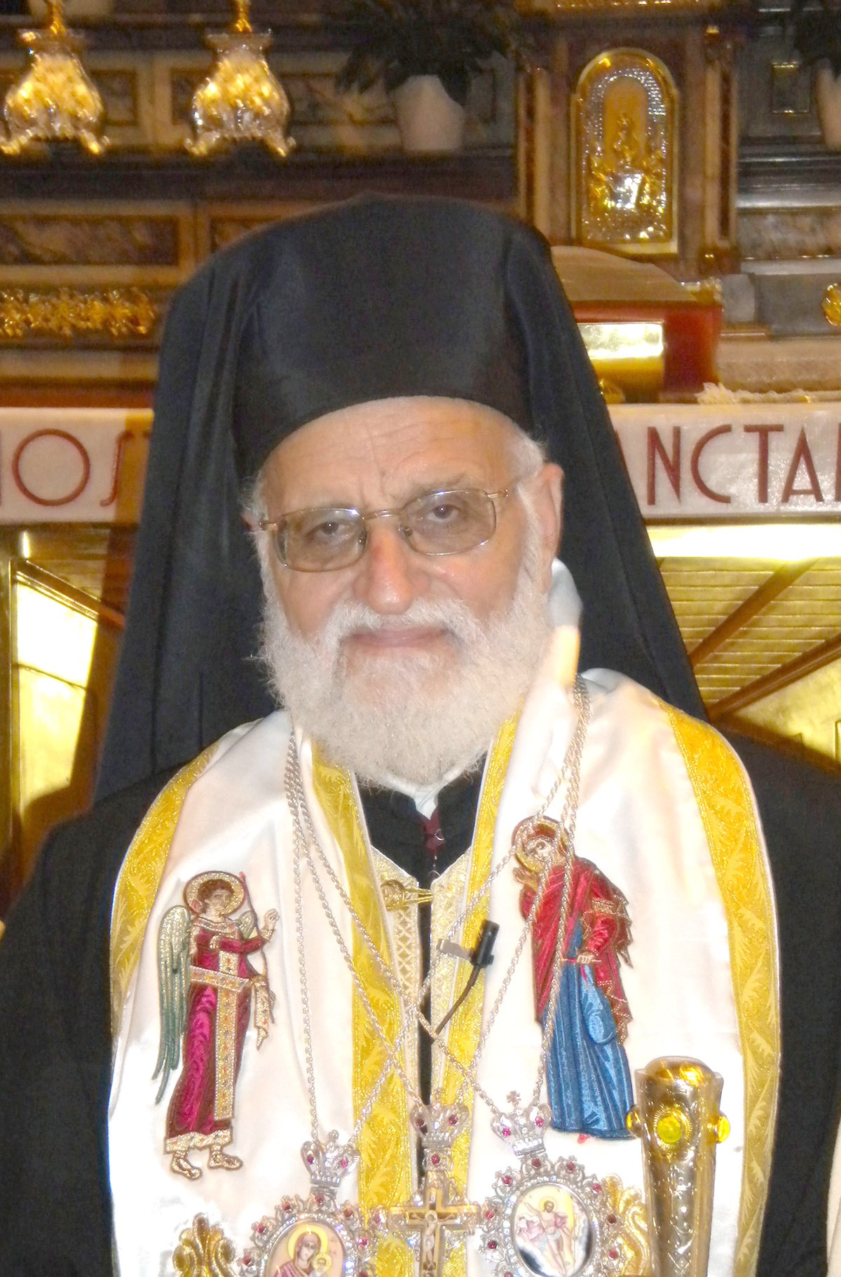 Malkite Patriarch Gregory 3rd